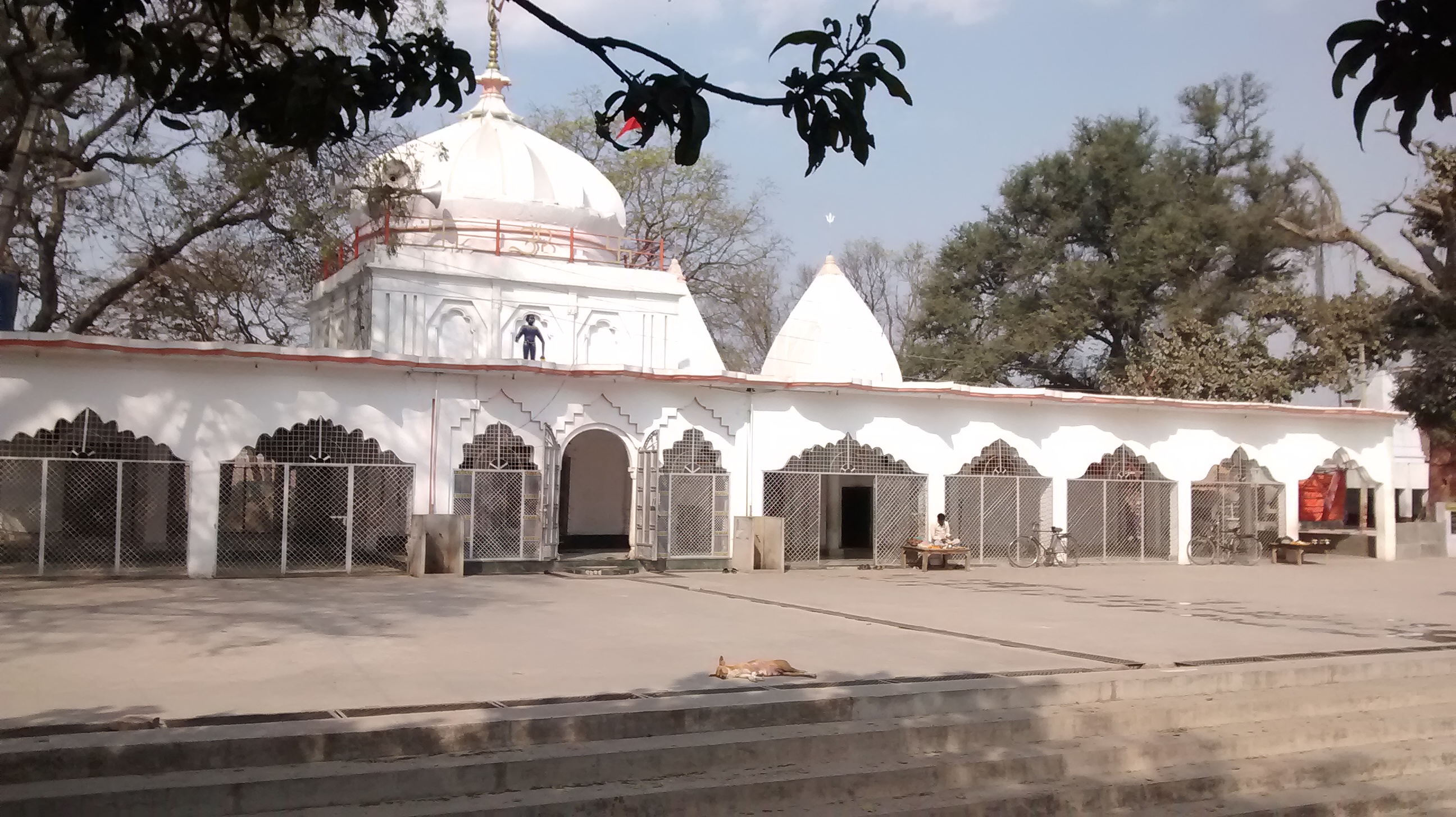 shiv temple-Hargaon-sitapur